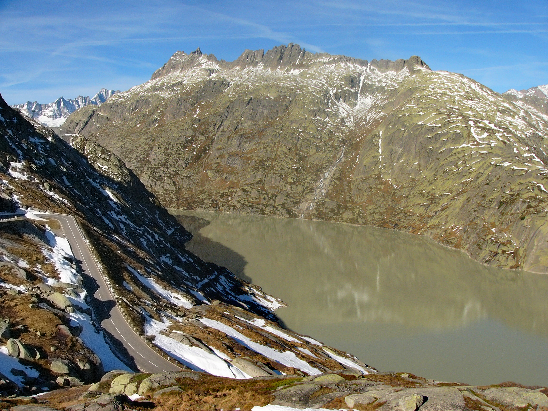 View to the 2165 m high Grimsel Pass and the Lake Grimsel in the Swiss Alps.